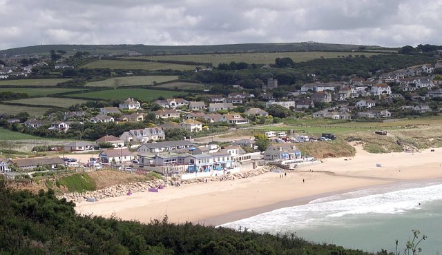 Praa Sands. A small Cornish seaside holiday resort.